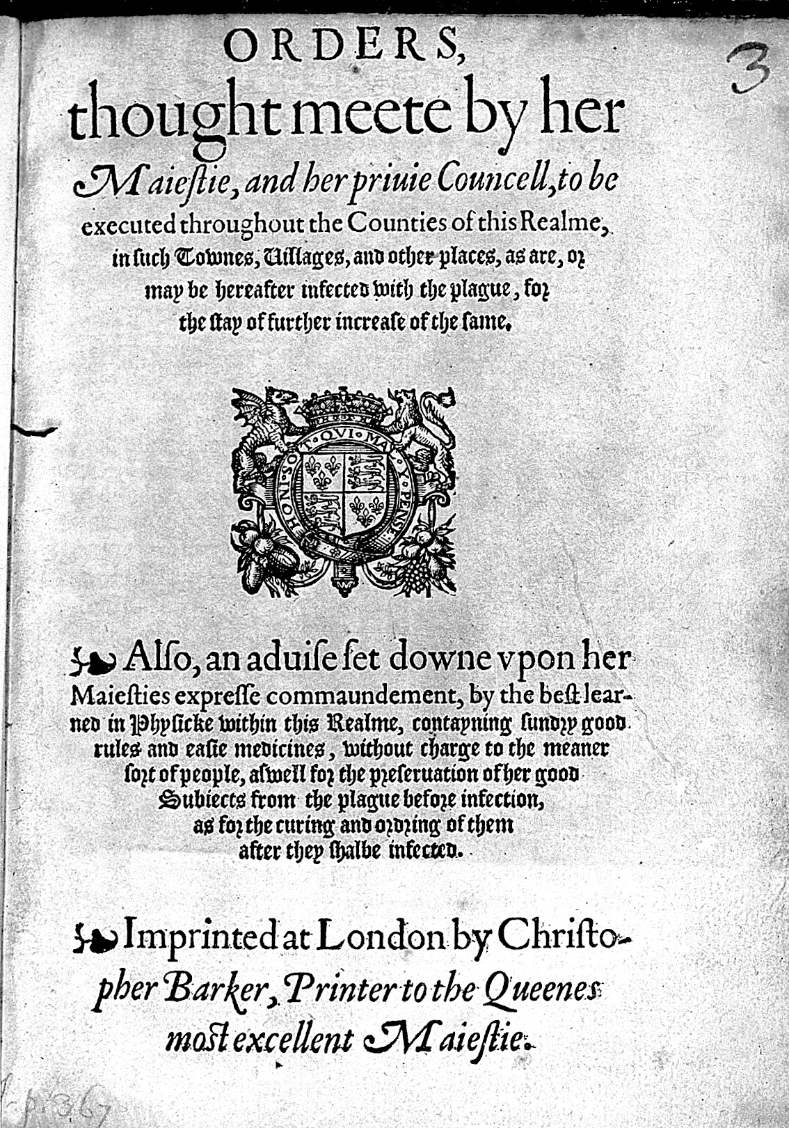 Title Page of Rare Books Keywords: 16th century; Plague